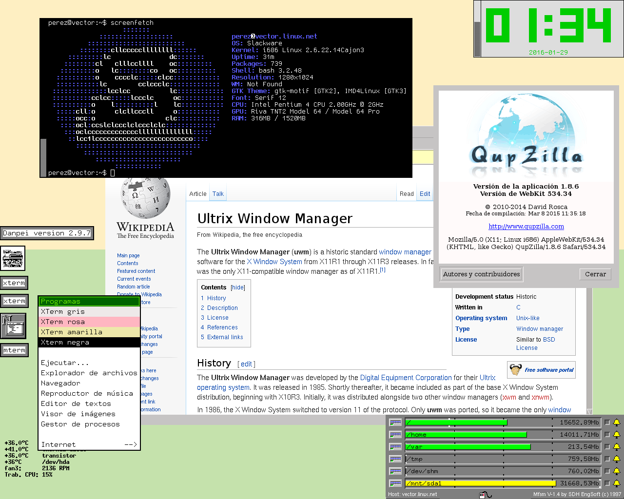 UWM (Ultrix Window Manager) running in Vector Linux (an Slackware based distro), with 7.2. There is a menu, and some iconified windows in the left border. Copy compiled in 2015 with GCC 3.3.